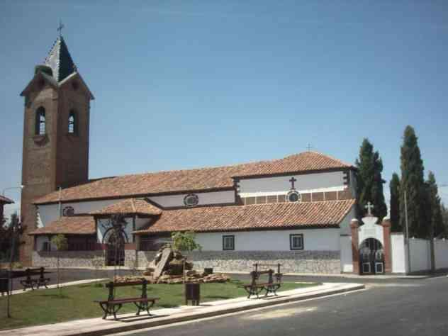 Church of Nuestra Señora de la Asunción